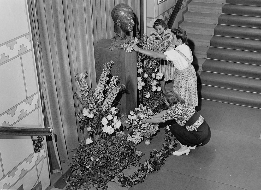 The bust of Hitler in Stortinget (the parliament of Norway) was decorated with flowers after the attack July 20th 1944. Archival reference: RAFA3309_48_1. Original caption: "Geschmüchte Führerbüste im Storting nach dem 20. Juli 1944." Photo from National Archives of Norway's photostream on Flickr (image marked with "No known copyright restrictions". )